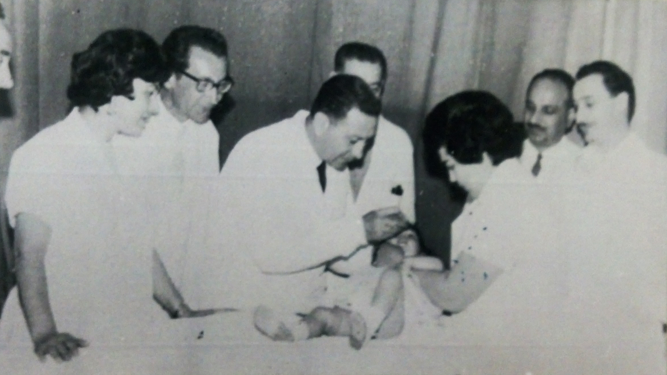 Dr. Jose Luis Minoprio aplicando la primera vacuna Sabin oral antipoliomielitica en la Argentina